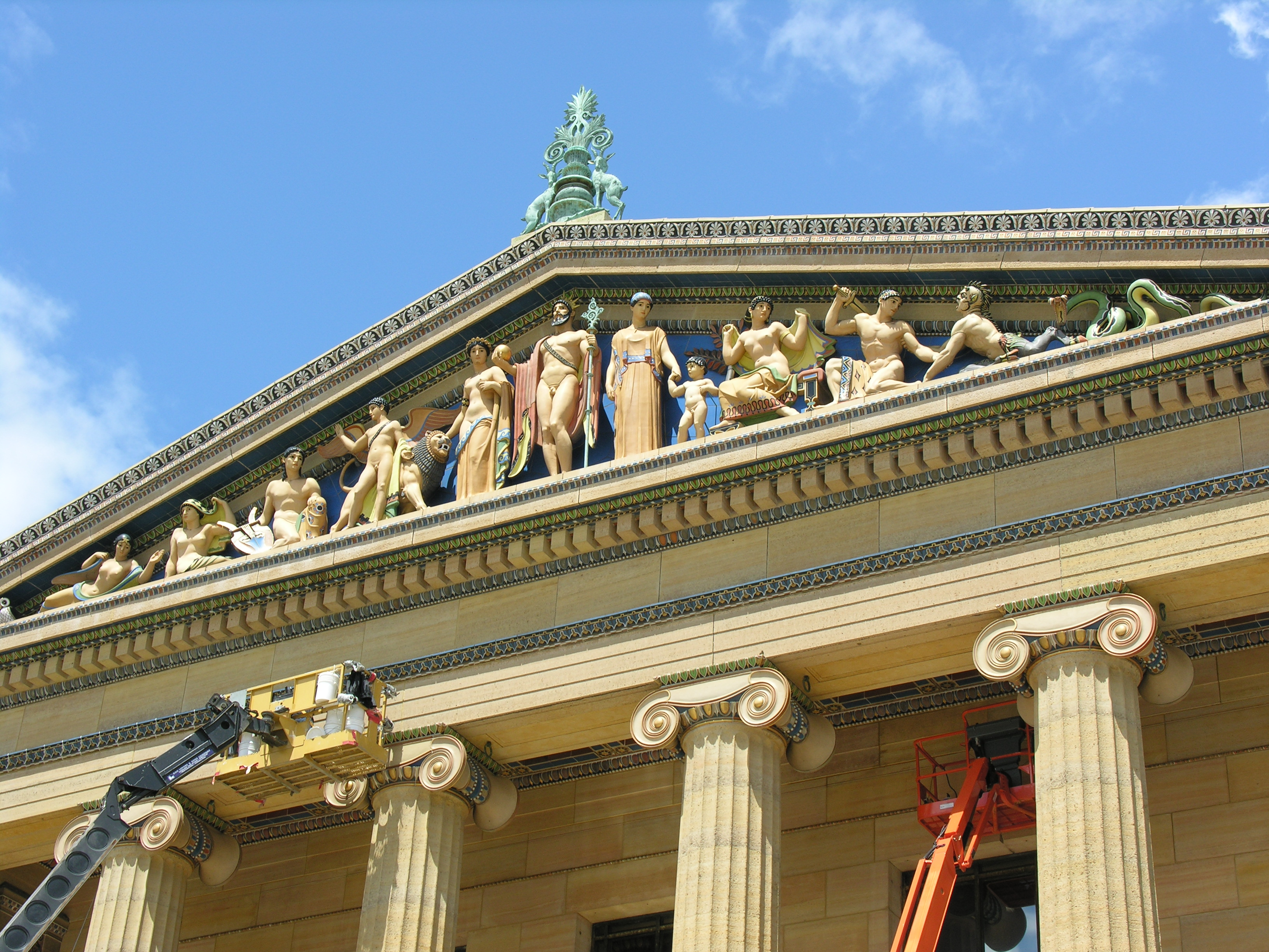 View of the only pediment that was completed at the Museum of Art in Philadelphia, Pennsylvania. For a less oblique view, see here (with figures identified).